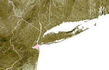 Lower New York Bay at the mouth of the Hudson River in the United States. Based on original public domain image courtesy of NOAA. © 2004 Matthew Trump.